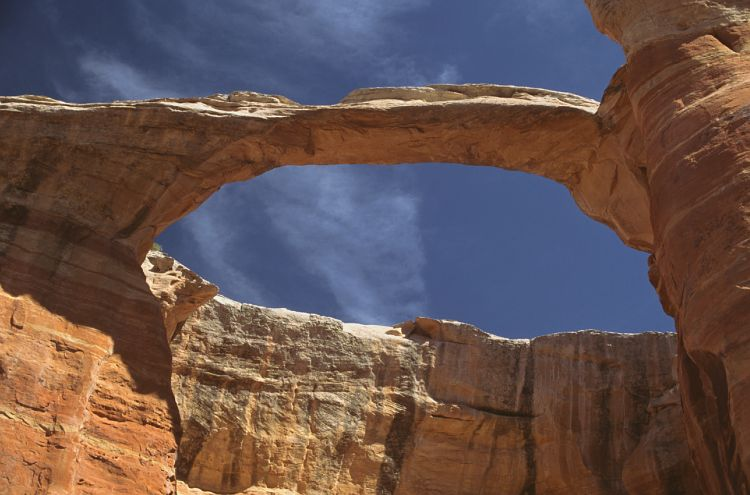 The largest and most impressive of the Rattlesnake Arches, East Rim Arch, in the Black Ridge Canyons Wilderness. The arches are around a 7 mile hike from the Pollock Bench trailhead.